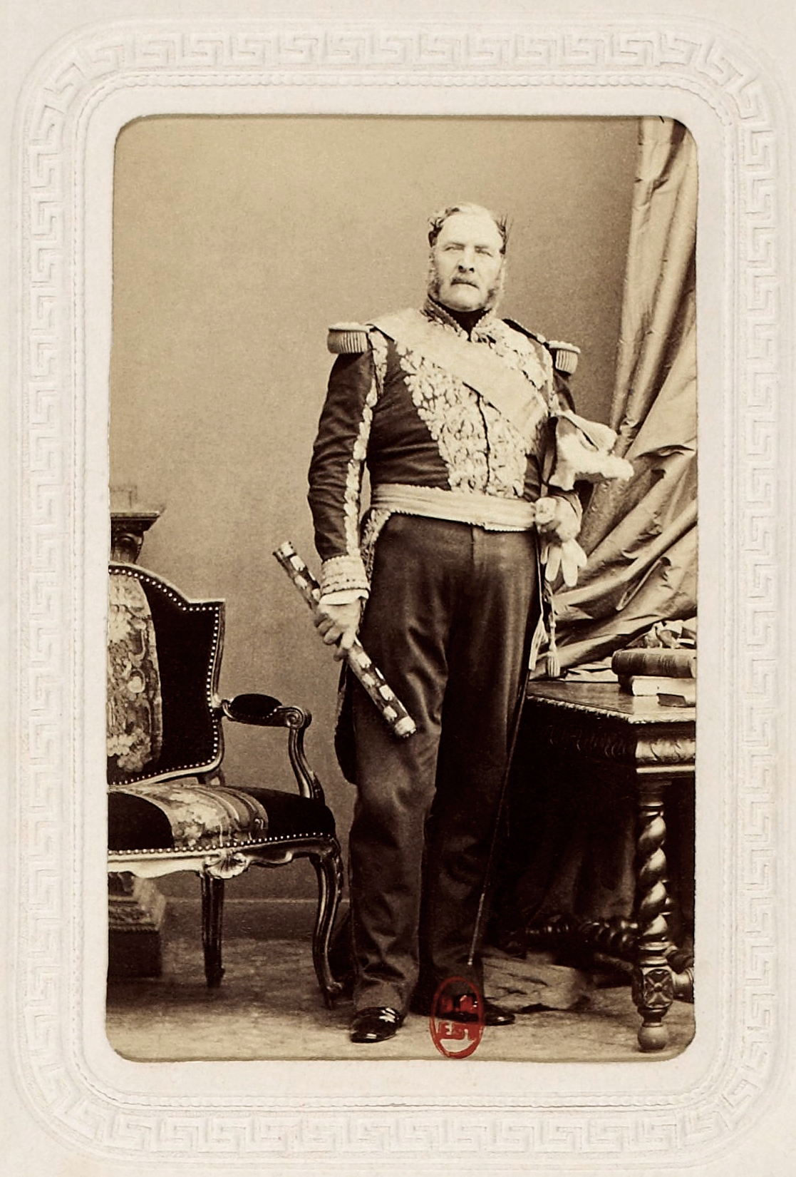 Bernard Pierre Magnan, (1791-1865), Marshal of France.